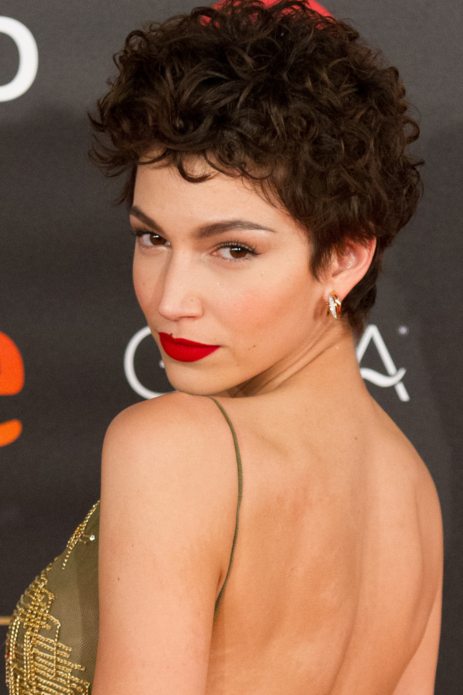 Úrsula Corberó during at the 32nd Goya Awards on February 3, 2018.